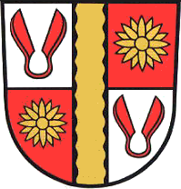 Coat of arms of Goldbach